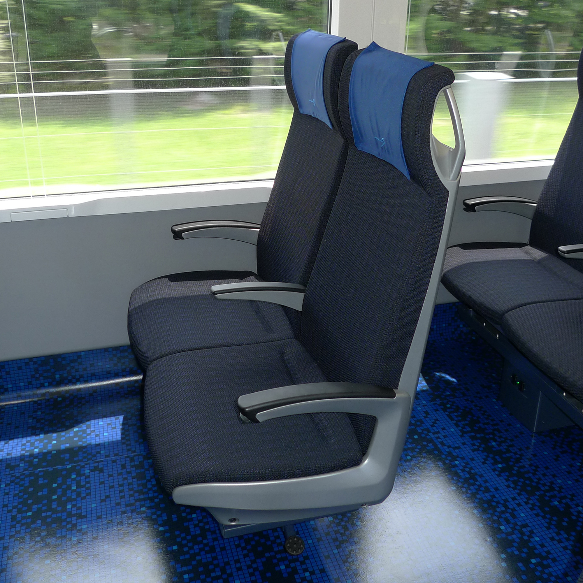 Seat detail of Keisei AE series "Skyliner" EMU